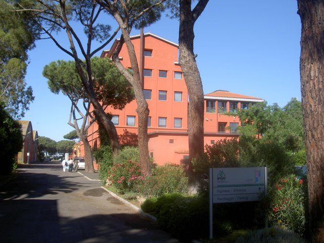 Ipgri Maccarese